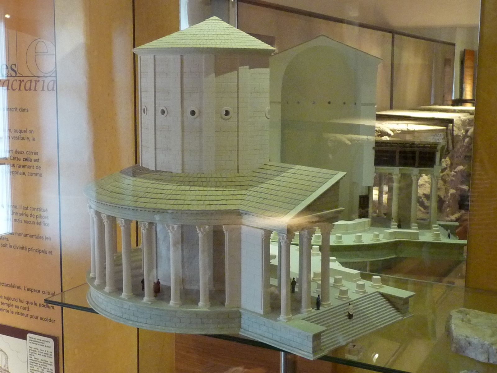 Ruins of a Gallo-roman city at Barzan (Novioregum?), Charente-Maritime, SW France. Temple general view (maquette).